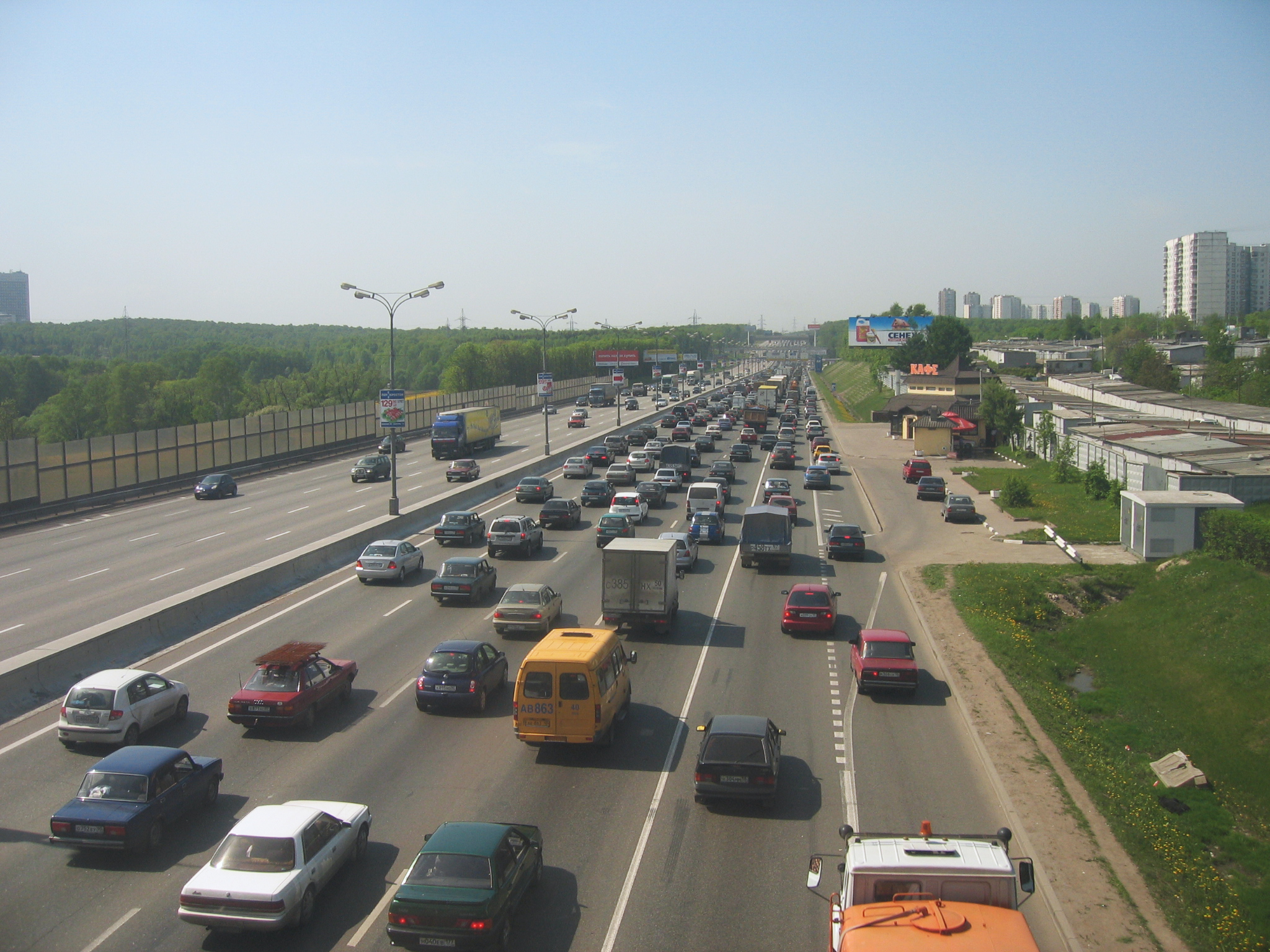 View of Moscow's MKAD / highway ring